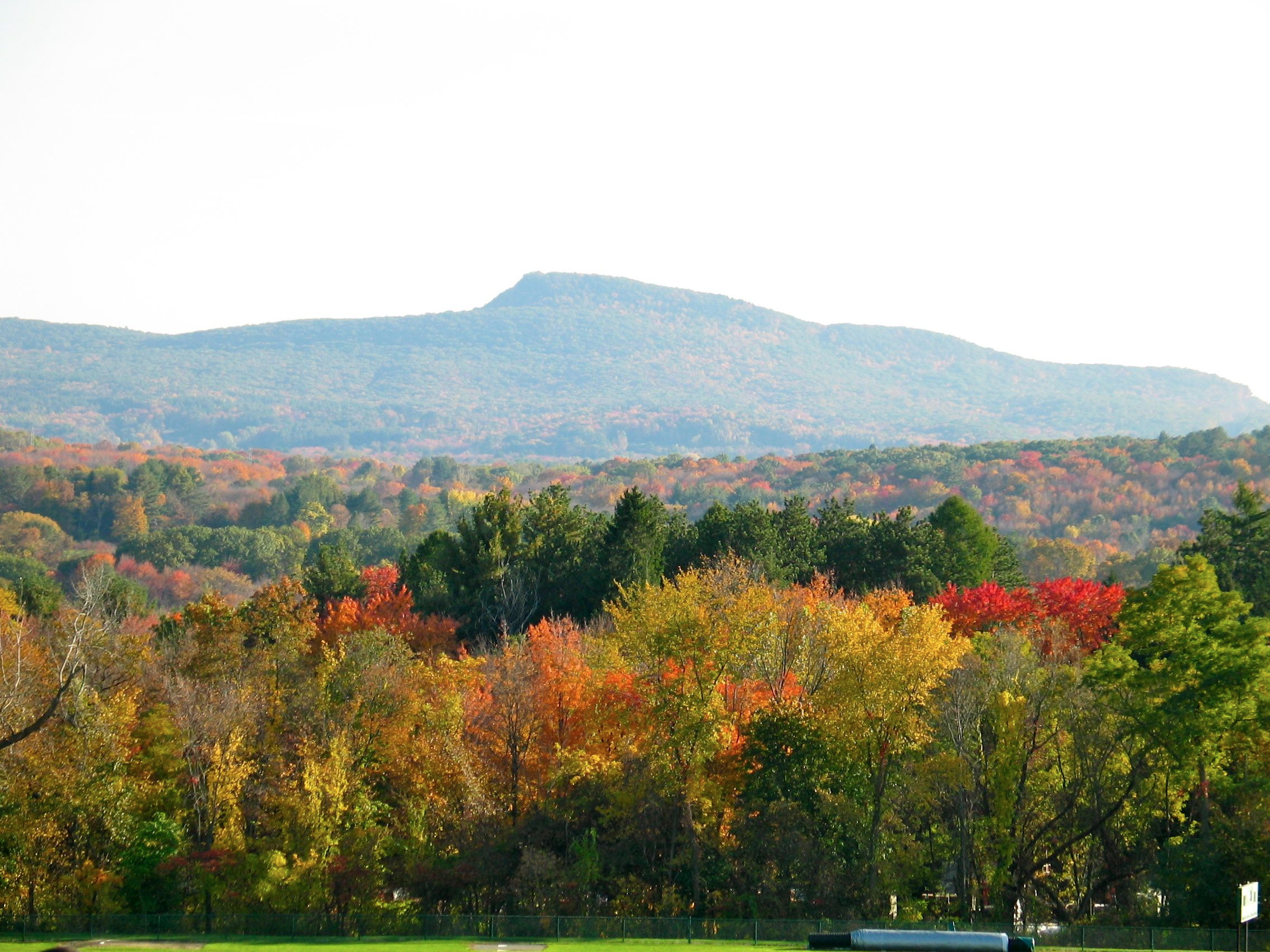 Mount Norwottuck in the Mount Holyoke range, on the border between the towns of Amherst and Granby, Massachusetts.